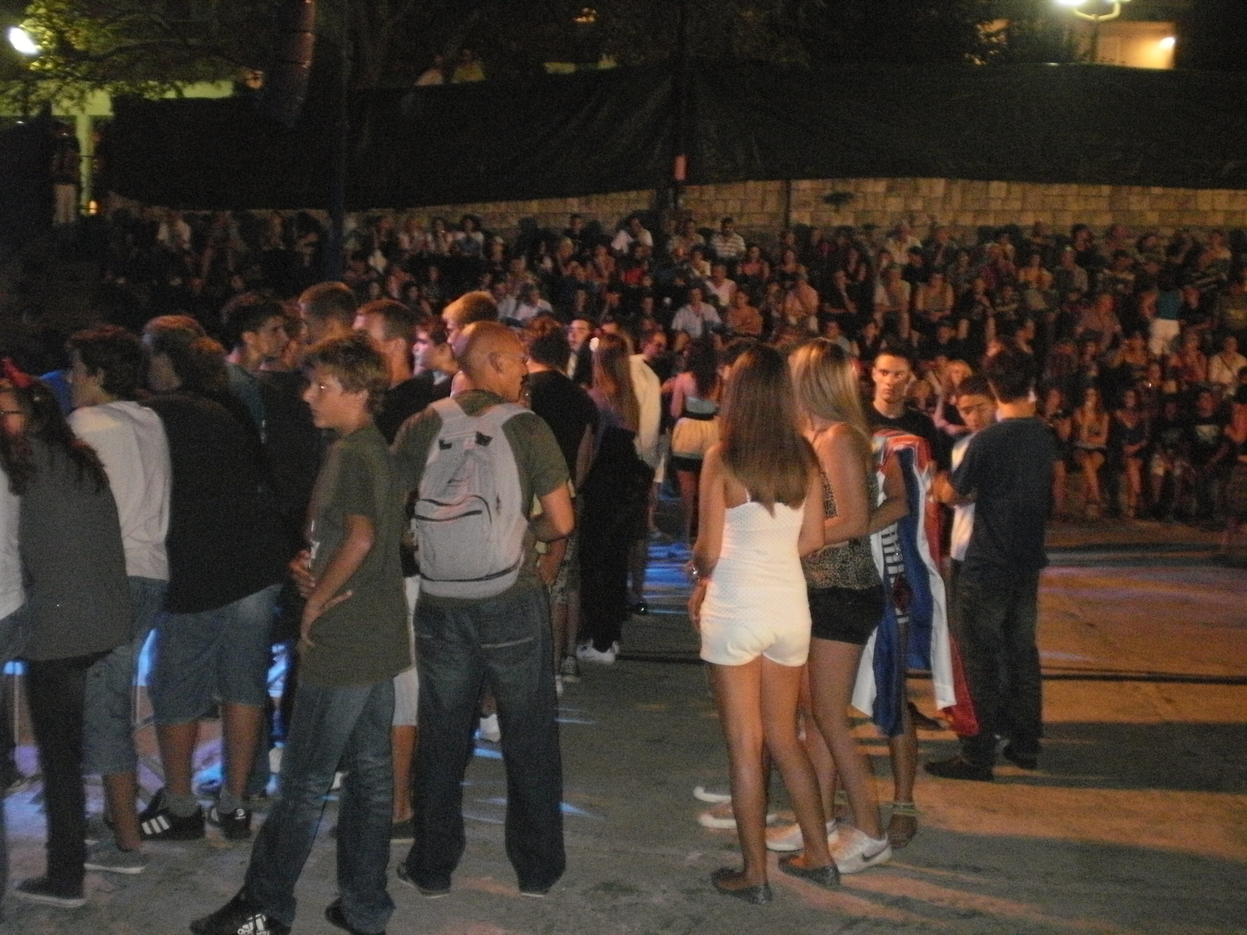 marko Perkovića Thompson's concert in Korčula